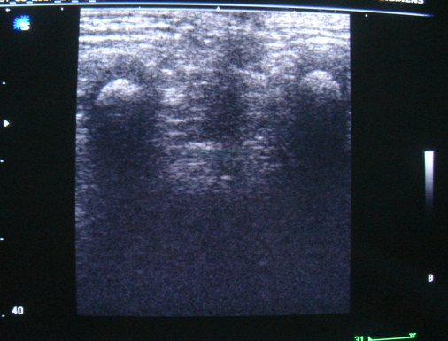 Preoperative localization of the center of muscle complex. A perineal sonogram showing muscle complex on two sides with variable amount of levator fat.